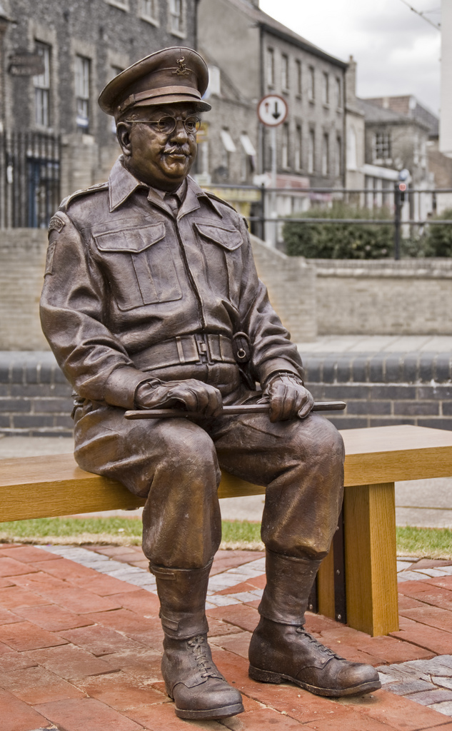 Statue of Captain George Mainwaring erected in the Norfolk town of Thetford.